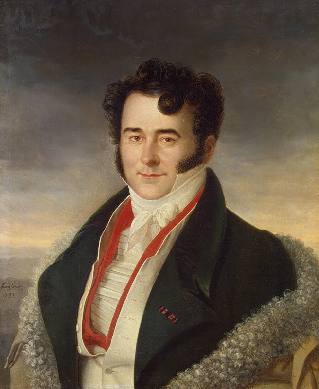 Gomion Marie - Portrait of Boris Kurakin